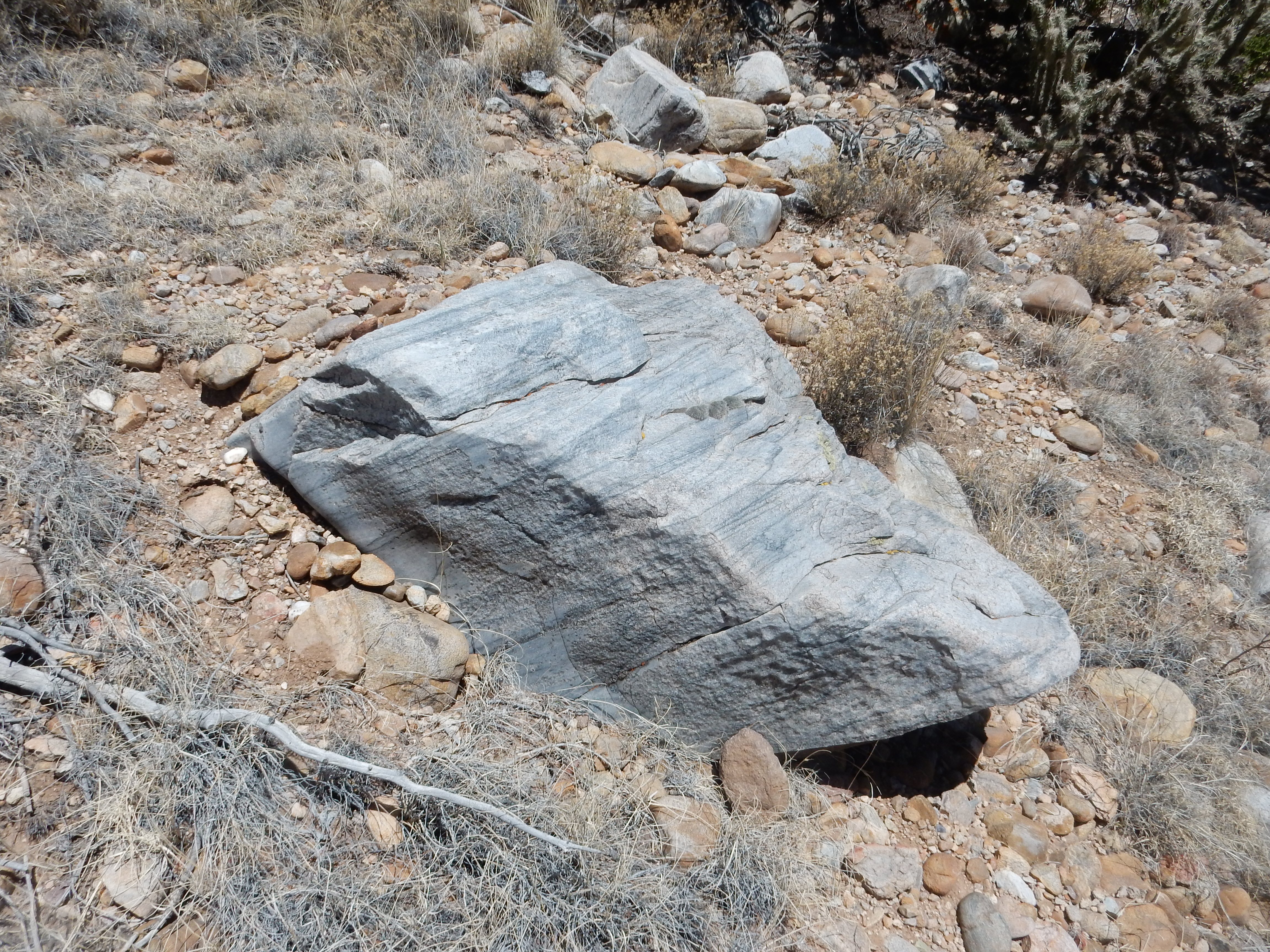 This image shows a boulder of Ortega Formation weathered from outcrops near Ancones, New Mexico, USA. This is a clean quartzite with minor magnetite banding. The Ortega Formation of the Hondo Group has an age by detrital zircon geochronology of around 1680 million years, and is thought to have been deposited in the Pilar Basin during the Yavapai Orogeny.